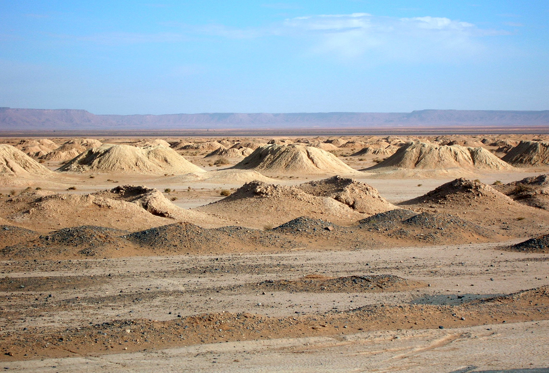 Kettharas near Erfoud, Morocco